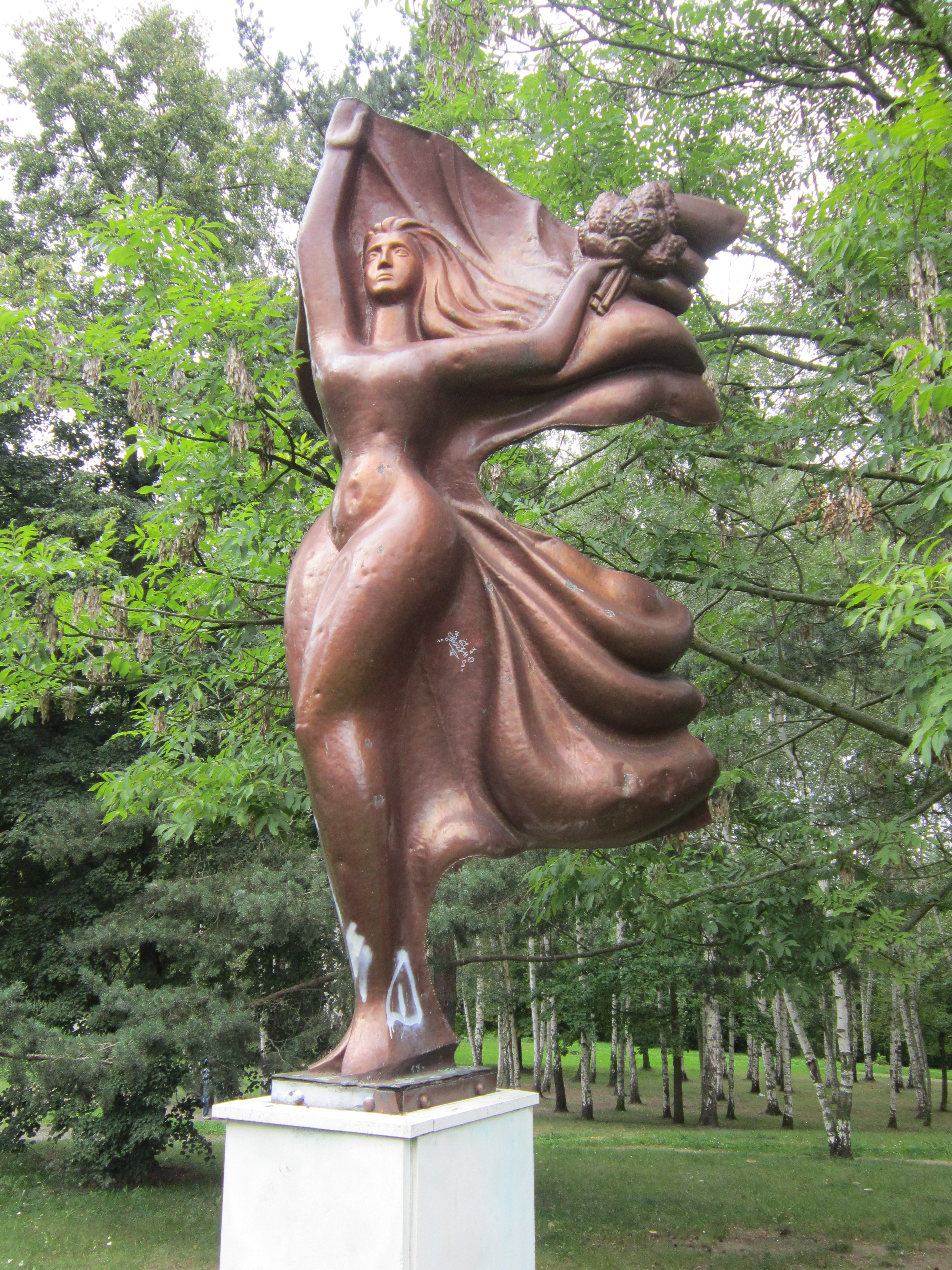 Artwork by Bretislav Holakovsky.